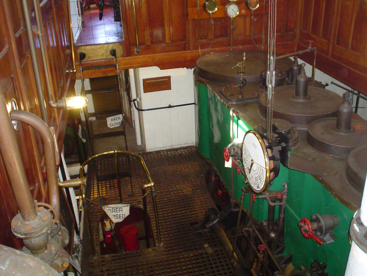 Triple expansion marine steam engine on the 1907 ocean going tug boat Hercules, San Francisco, CA.